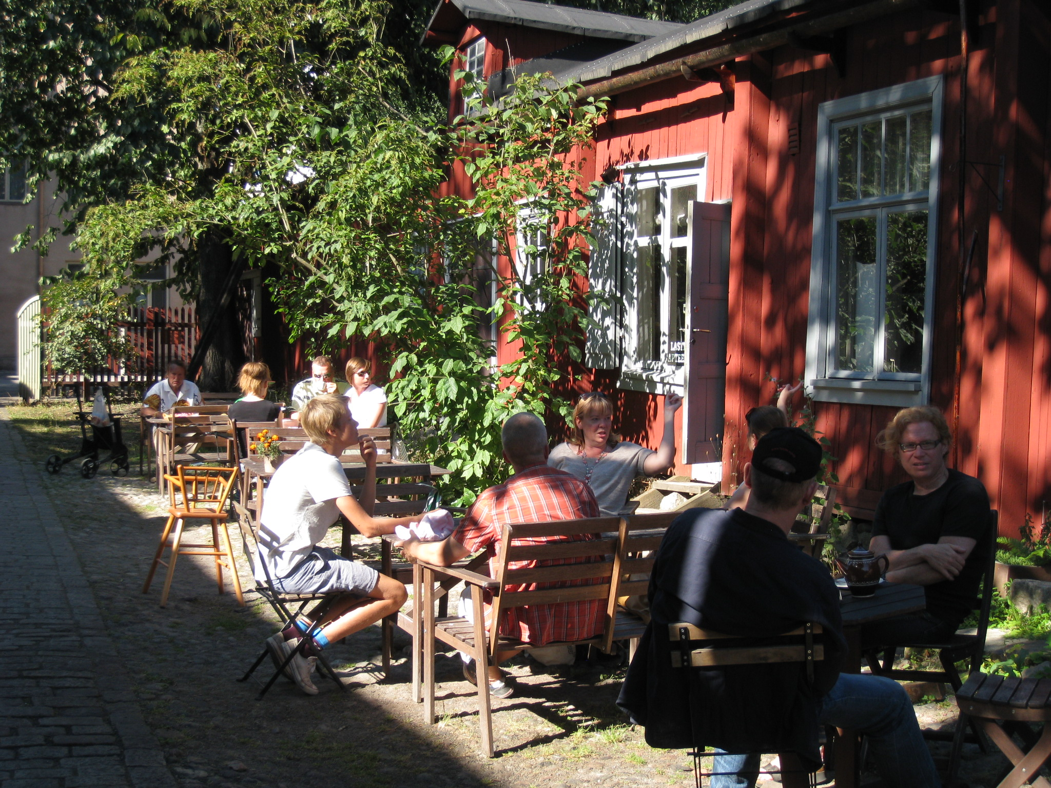 Café Qwensel, Västra Strandgatan 13b, Åbo, Finland.